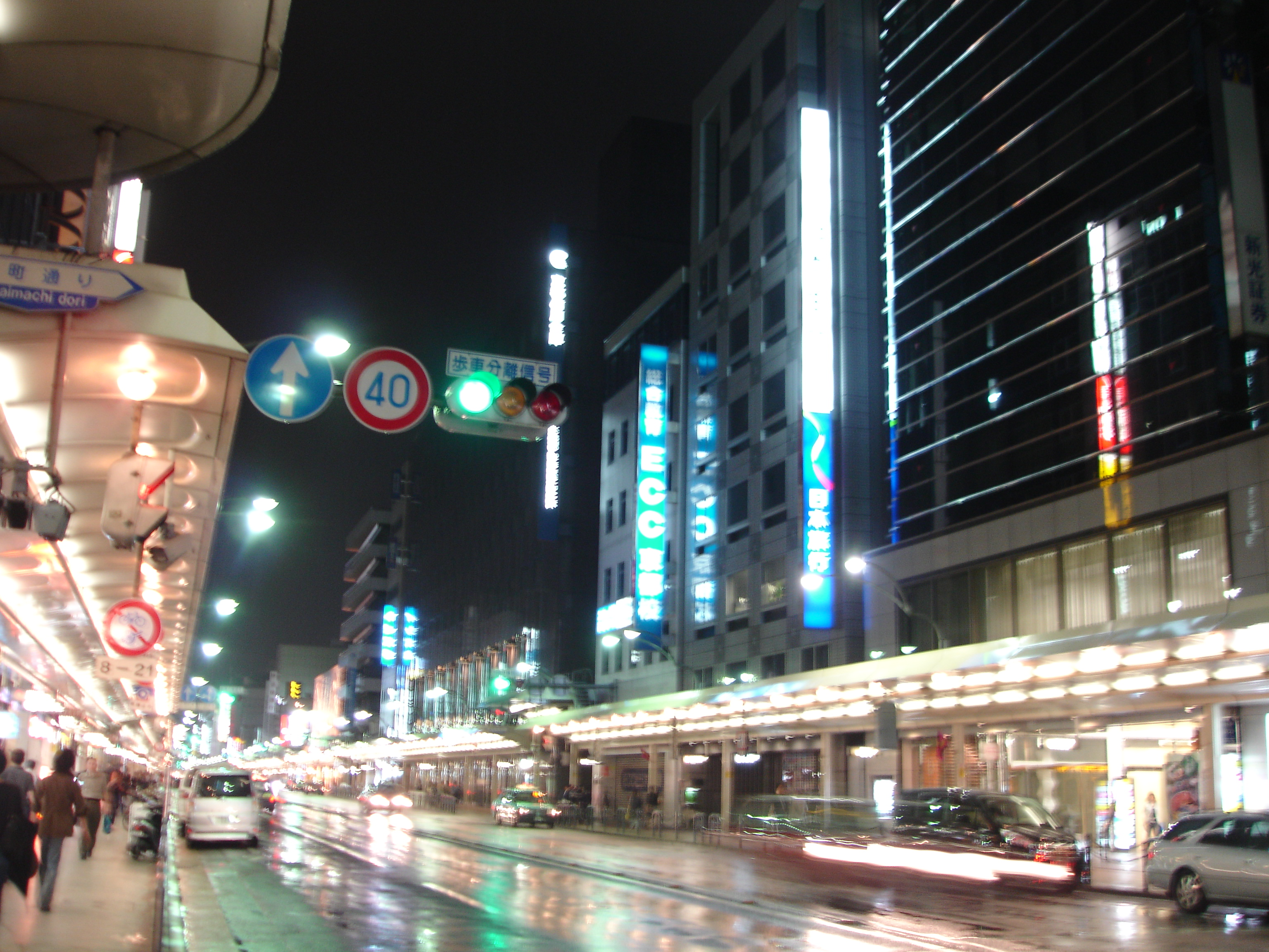 Electric lights illuminate a street at night in Kyoto.